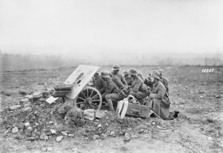 AWM caption : Western Front. October 1918. A German Army anti-tank gun with its crew behind the shield ready to fire at advancing British Army tanks. Comment : This appears to show an Austro-Hungarian Skoda 75 mm Model 15 mountain gun in German anti-tank use.